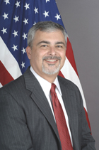 Phillip Carter III, U.S. diplomat. As of 2010, U.S. Ambassador to Côte d'Ivoire.